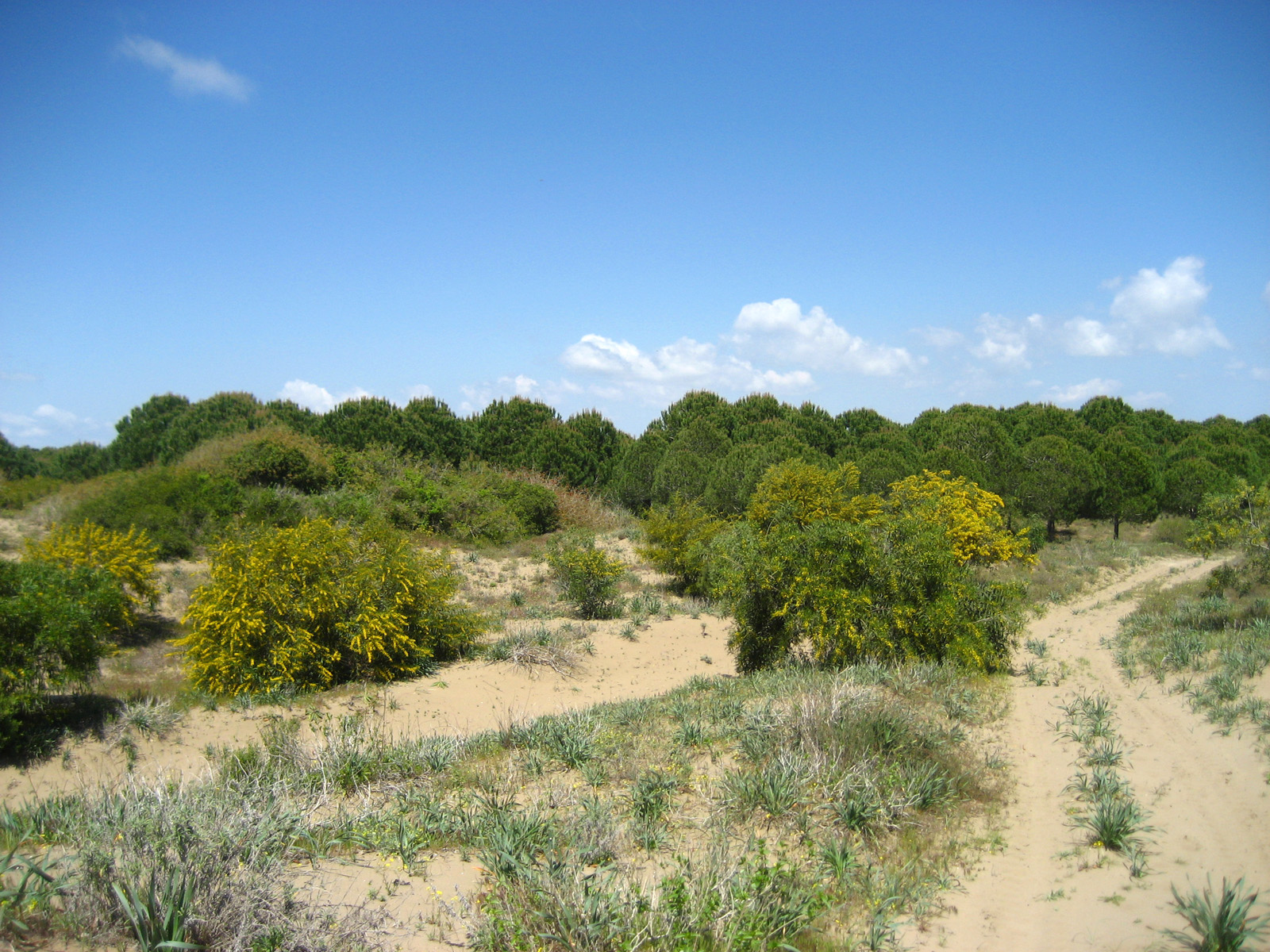 Akyatan Lagoon wildlife refuge. Karataş, Adana province, Turkey